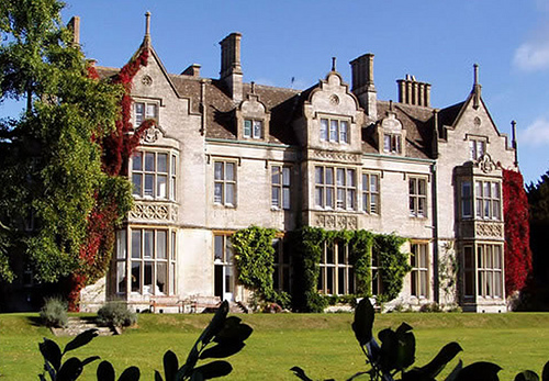 Alderley House, Alderley, Gloucestershire, seen from the garden (looking northeast) in March 2008, when the house was still Rose Hill Preparatory School. The house was rebuilt in 1859–63 by Robert Blagden Hale to designs by Lewis Vulliamy and was one of the first double-piles in Gloucestershire. Unlike the entrance court range which consists of 3 full storeys, the garden side range has 2 storeys and attics.